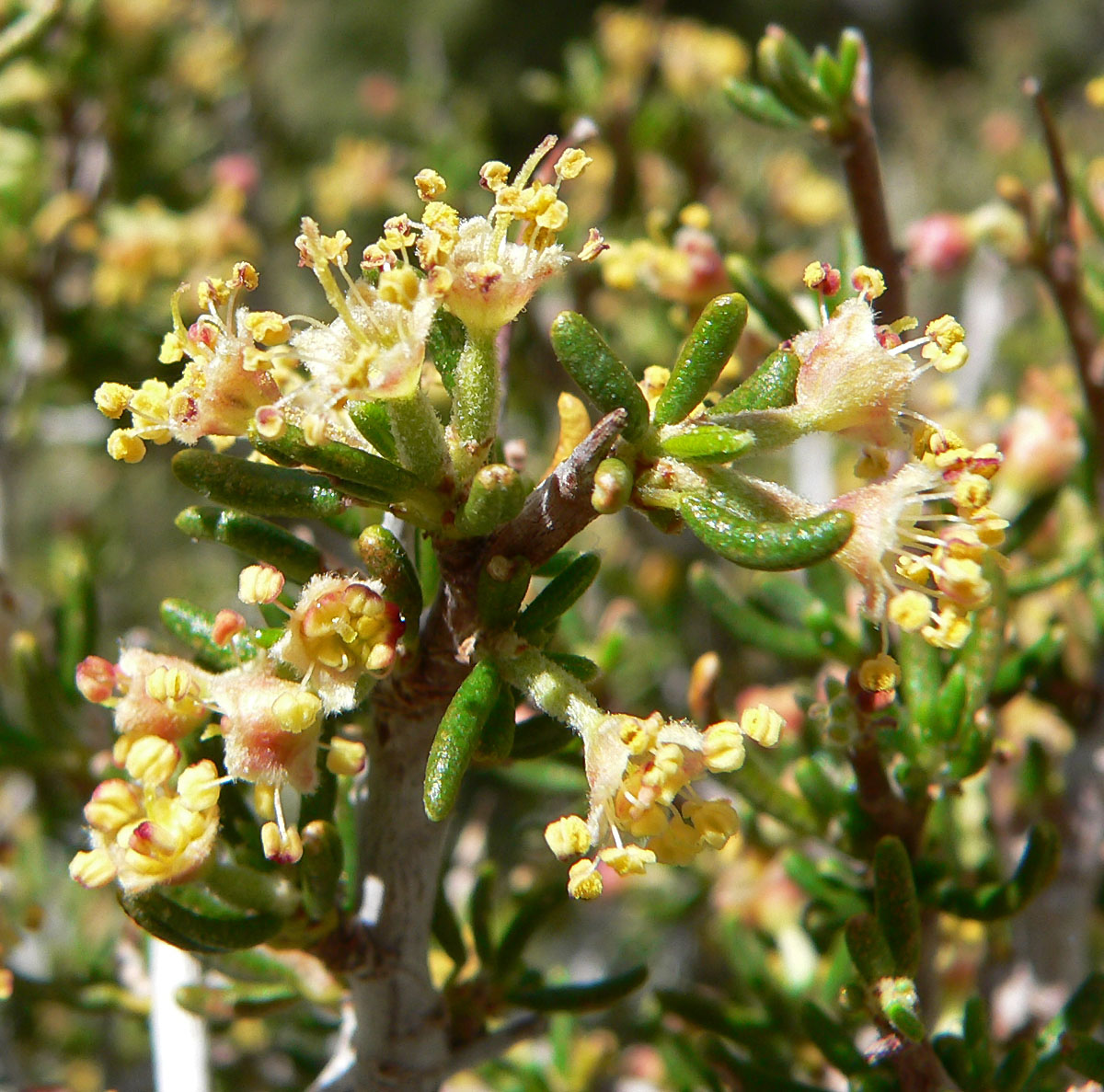 Cercocarpus intricatus at Mary Jane Falls, Kyle Canyon, Spring Mountains, southern Nevada (elev. about 2700 m)